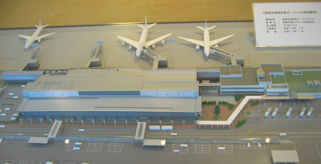 Photograph of entire model of Hakodate Airport Terminal Buildings in Hakodate, Hokkaido, Japan.